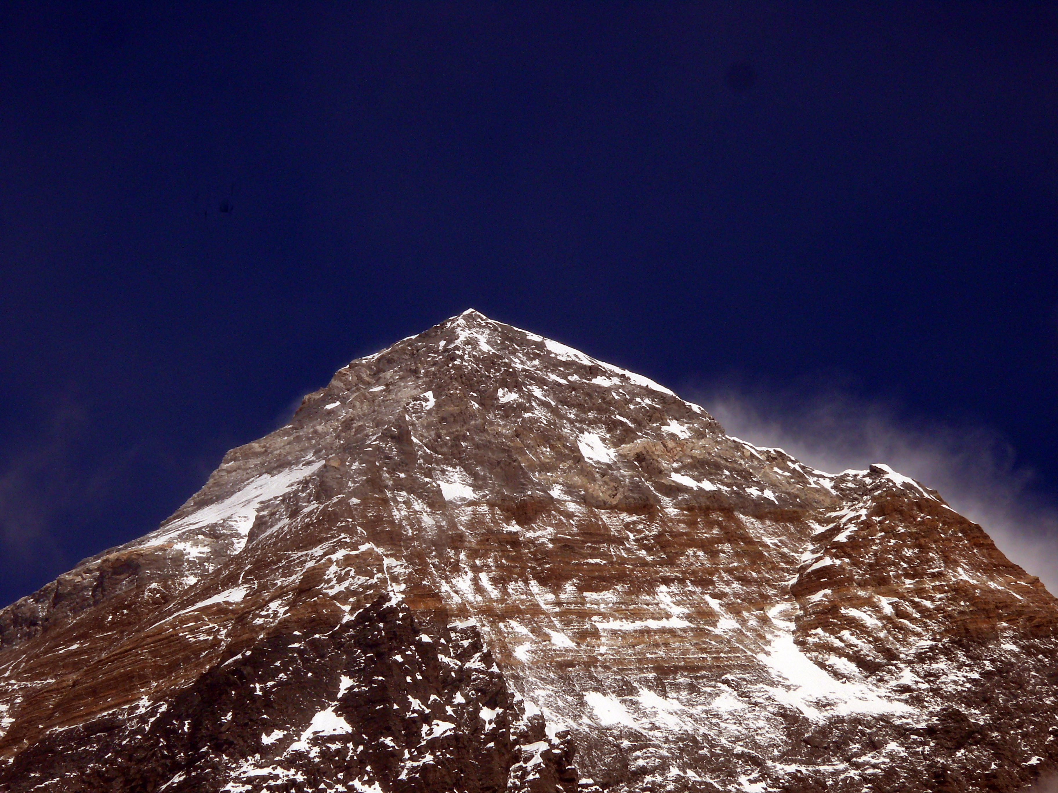 Mount Everest from Kala Patther